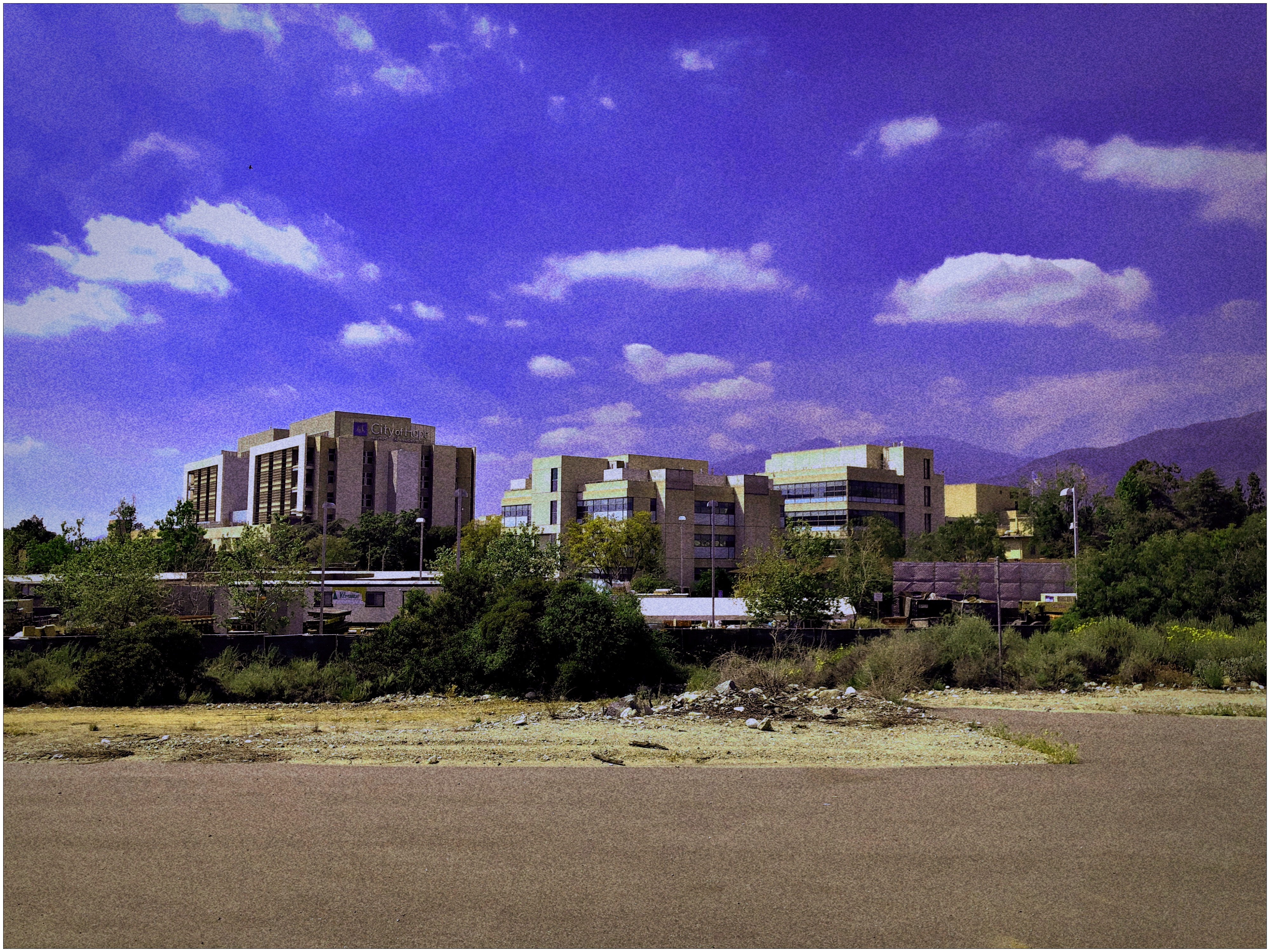 IPhone 8; Hipstamatic. Frame from PixLr (which program seems to erase all the exif data.) [ Explore 8 Apr 2019 ]